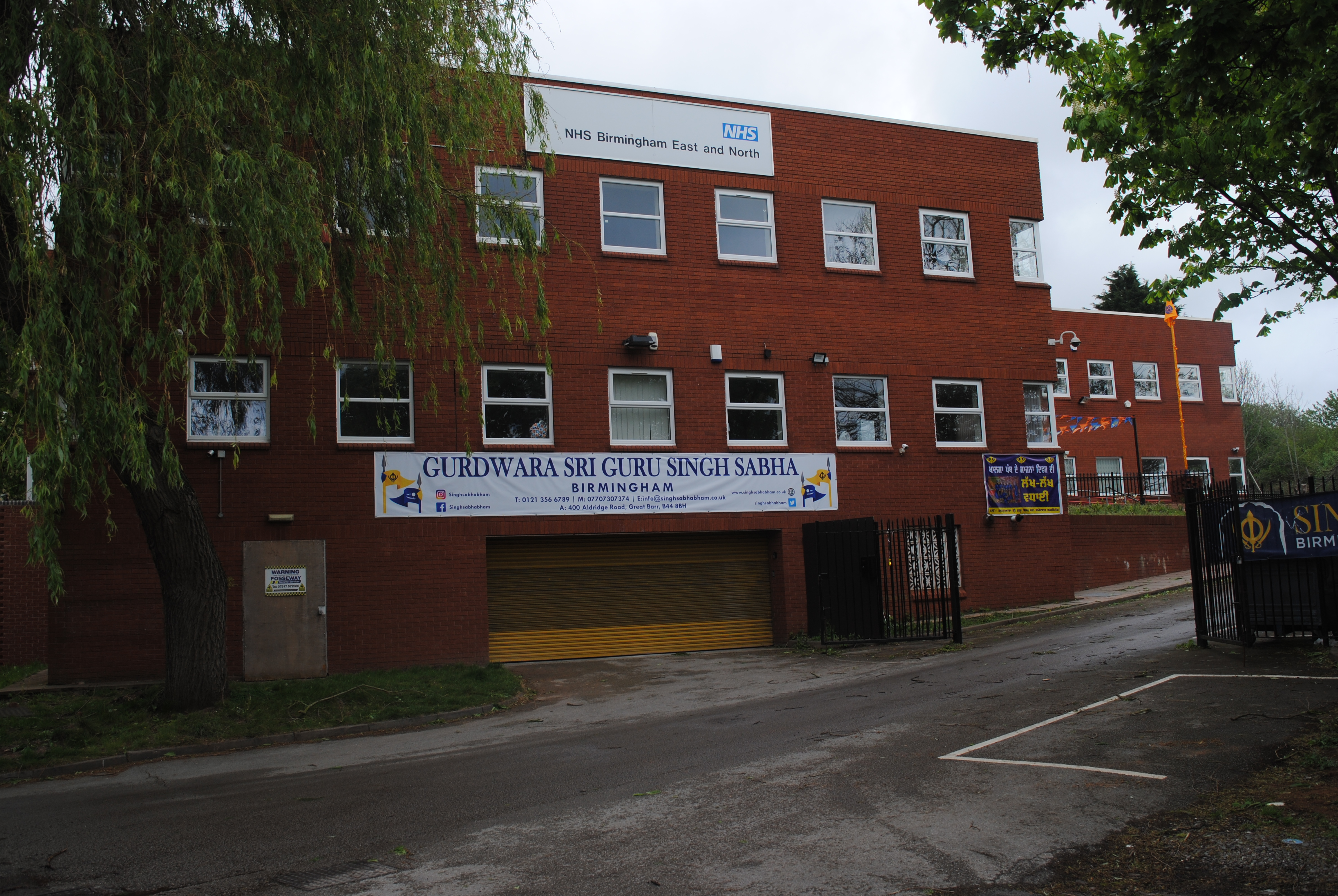 Gurdwara Sri Guru Singh Sabha, in Great Barr, Birmingham, England